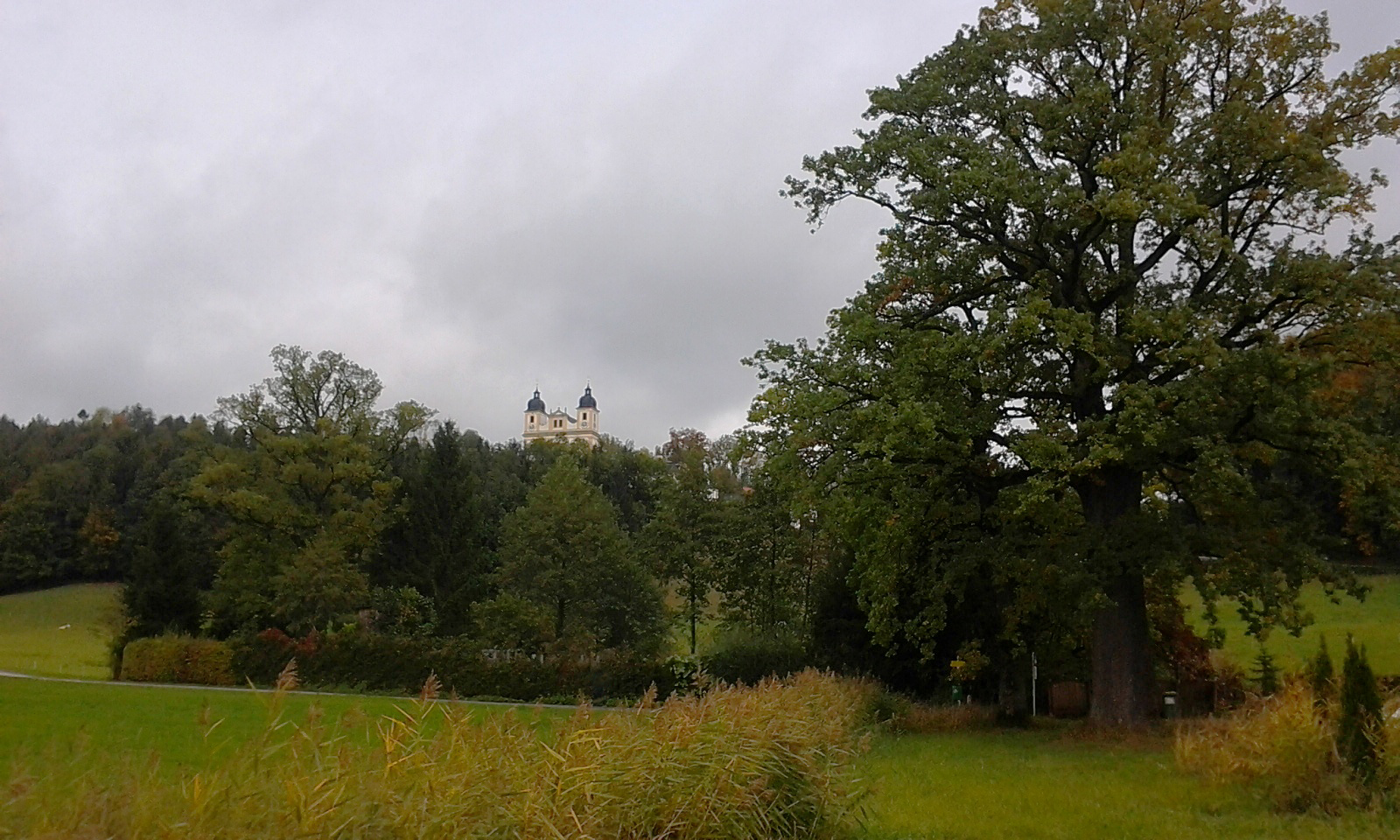 Natural monument "Group of trees in Maria Plain" on mountain Plainberg, municipality of Bergheim, state of Salzburg, Austria.